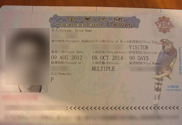 Sample of Taiwan Visa 中文（中国大陆）: 中华民国（台湾）签证样本 中文（台灣）: 中華民國（台灣）簽證樣本